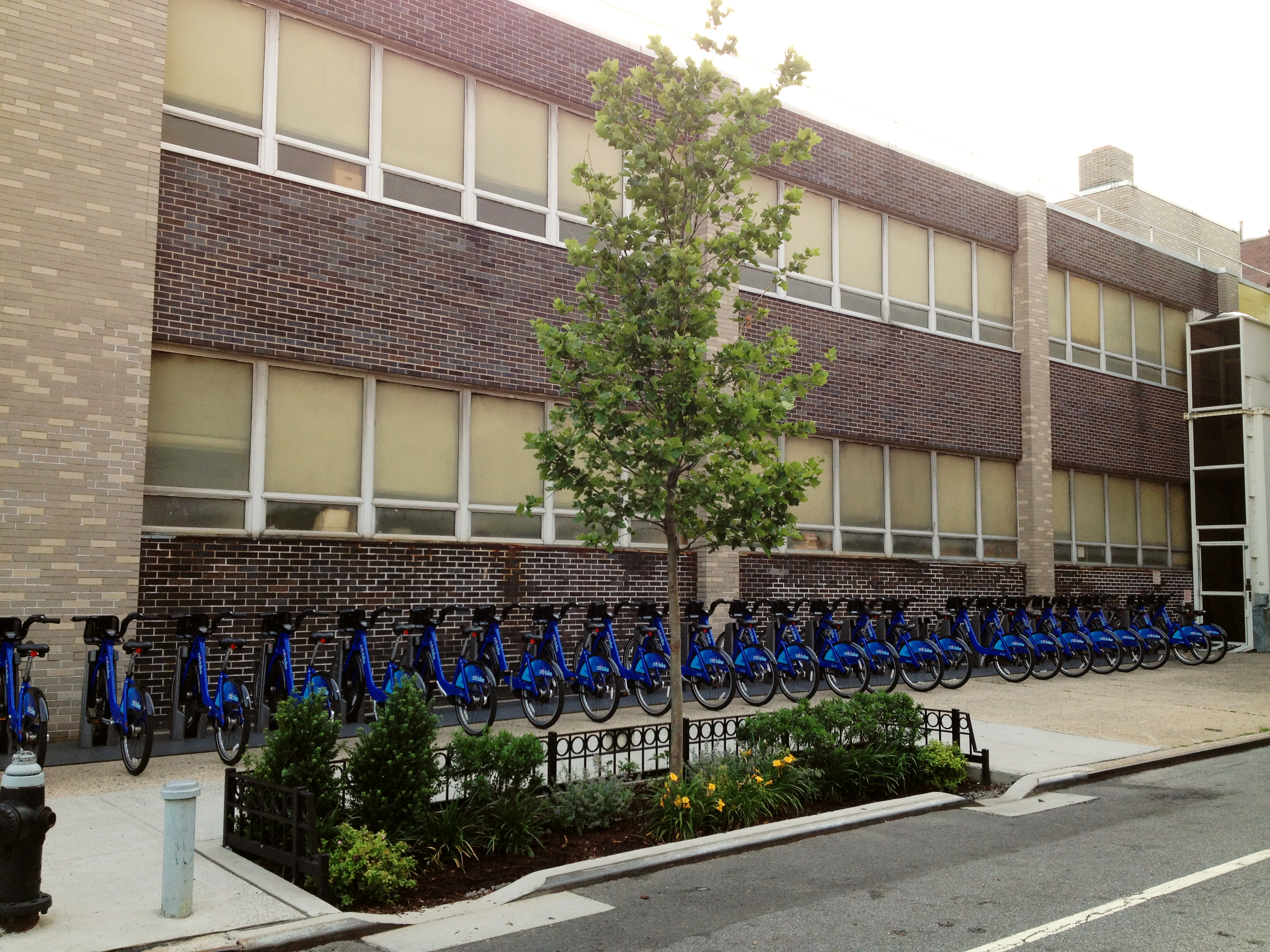 A right of way bioswale installed by the New York City Department of Environmental Protection on Dean Street, Brooklyn